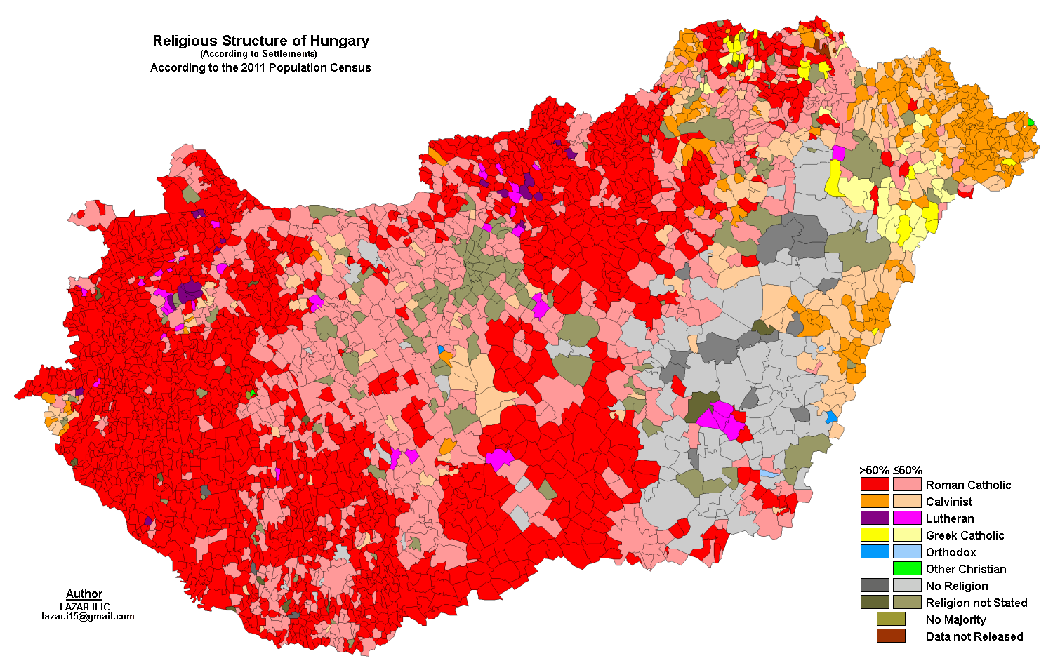 This is a religious map of Hungary according to settlements, according to the 2011 population census.